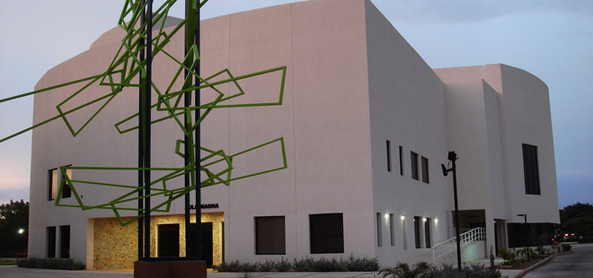 Aula magna Universidad Rafael Urdaneta